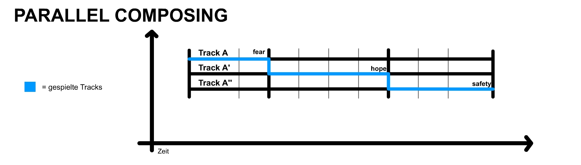 Parallel Composing